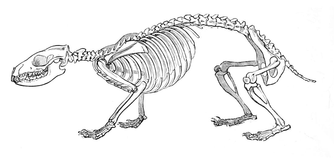 Skeleton_of_hedgehog Erinaceus europaeus